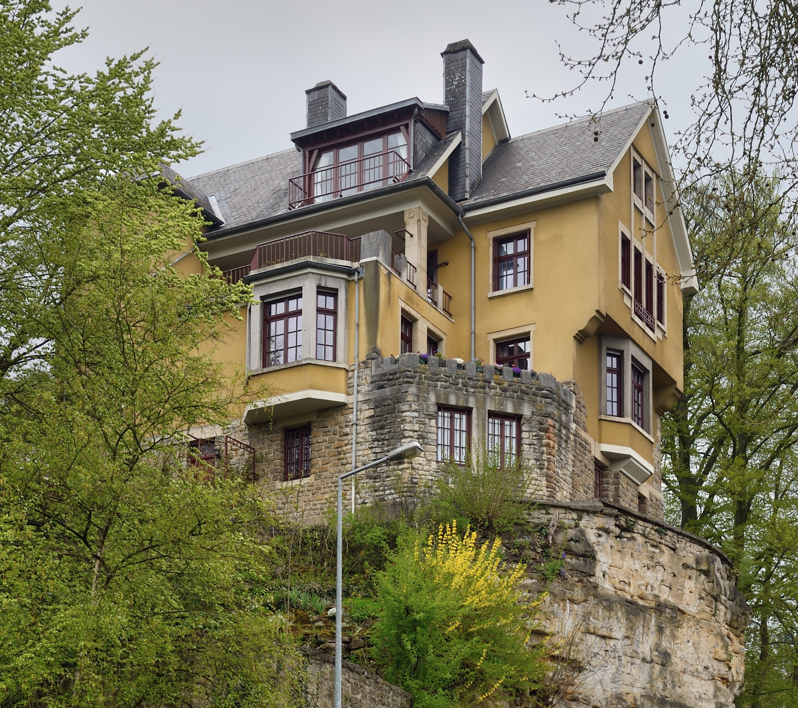 Luxembourg City, villa Heldenstein, also villa Collart, 20, rue des Glacis, from below. The building is listed as Cultural Heritage Monument since 6 July 2012.